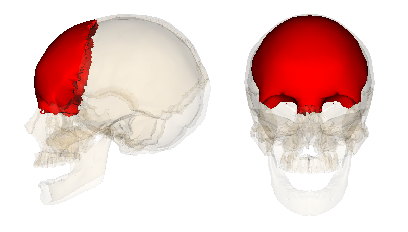 frontal bone from Anatomography[1] maintained by Life Science Databases(LSDB).